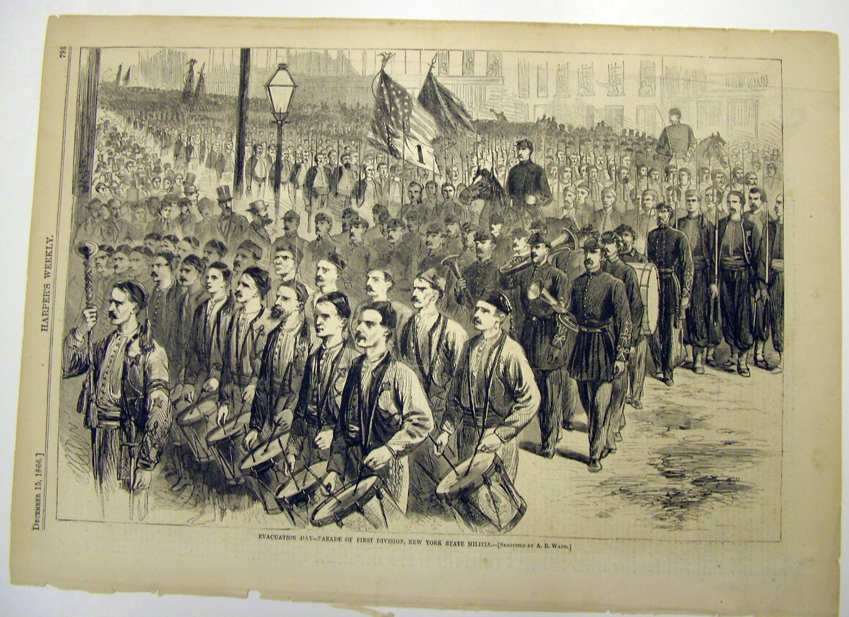 American; Newspaper illustration; Works on Paper